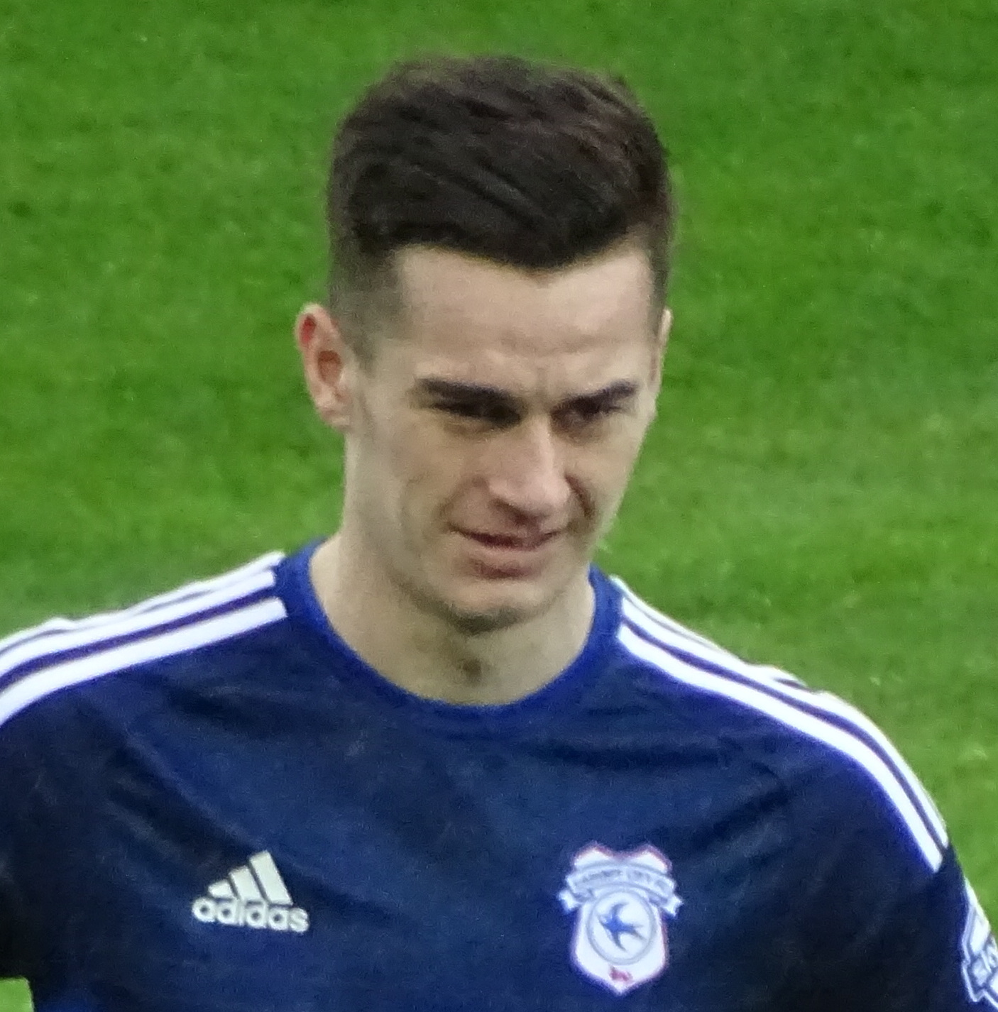 Tom Lawrence